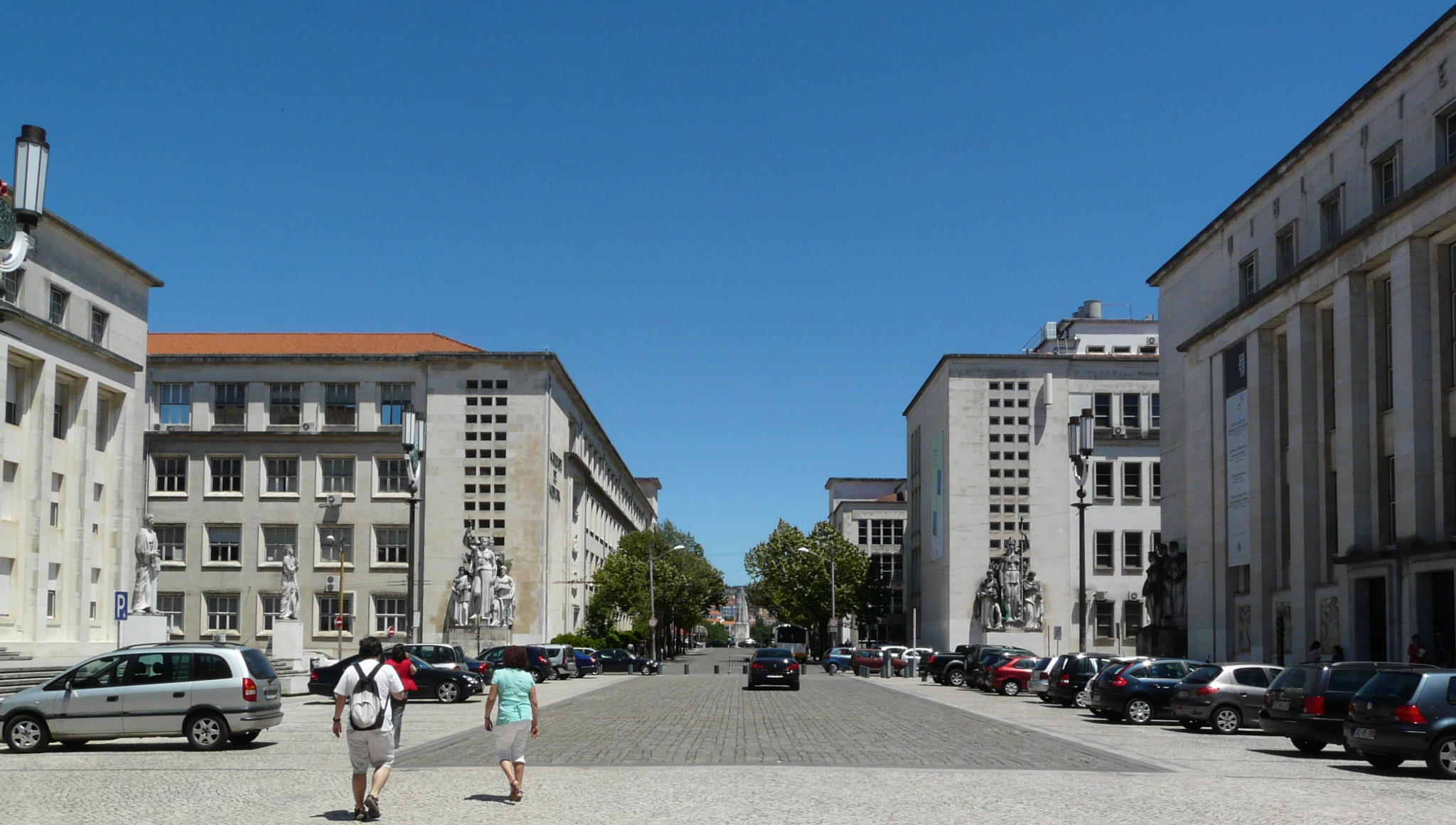 The main axis of the university at Coimbra.